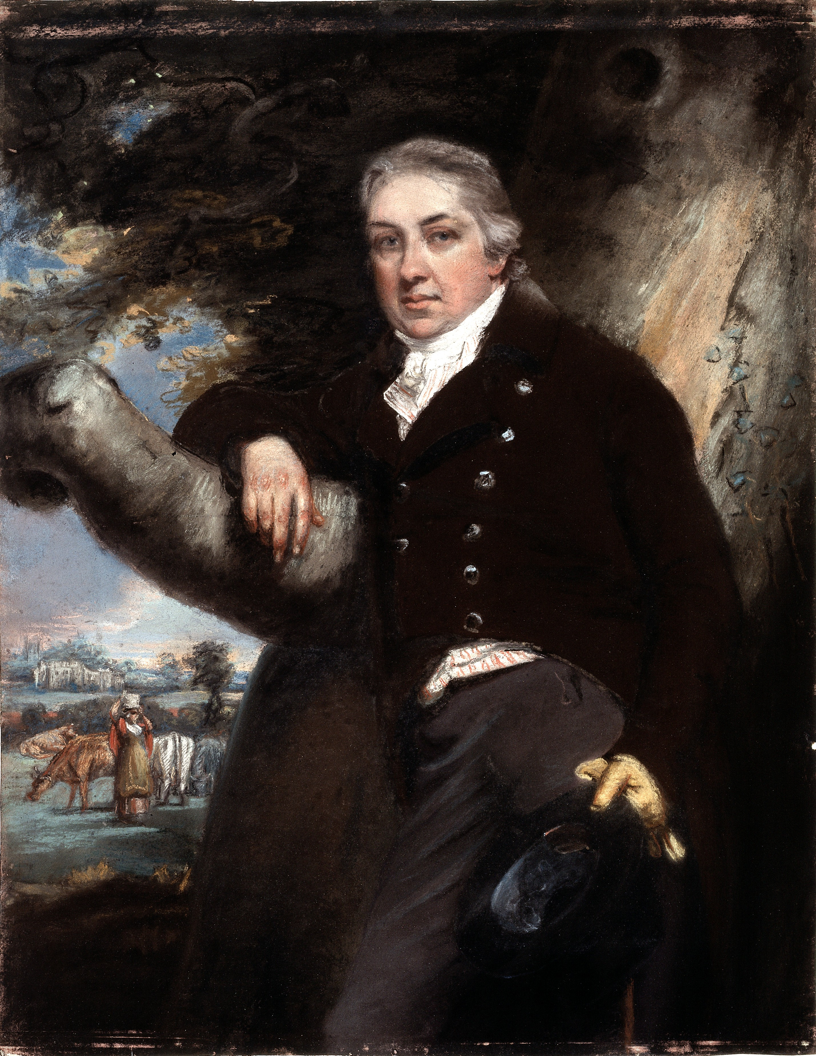 Edward Jenner. Pastel by John Raphael Smith. Edward Jenner pionneered vaccination against smallpox using the cowpox vaccine. Iconographic Collections Keywords: Vaccination; Smallpox; Smallpox Vaccine; Cowpox; Edward Jenner; John Raphael Smith